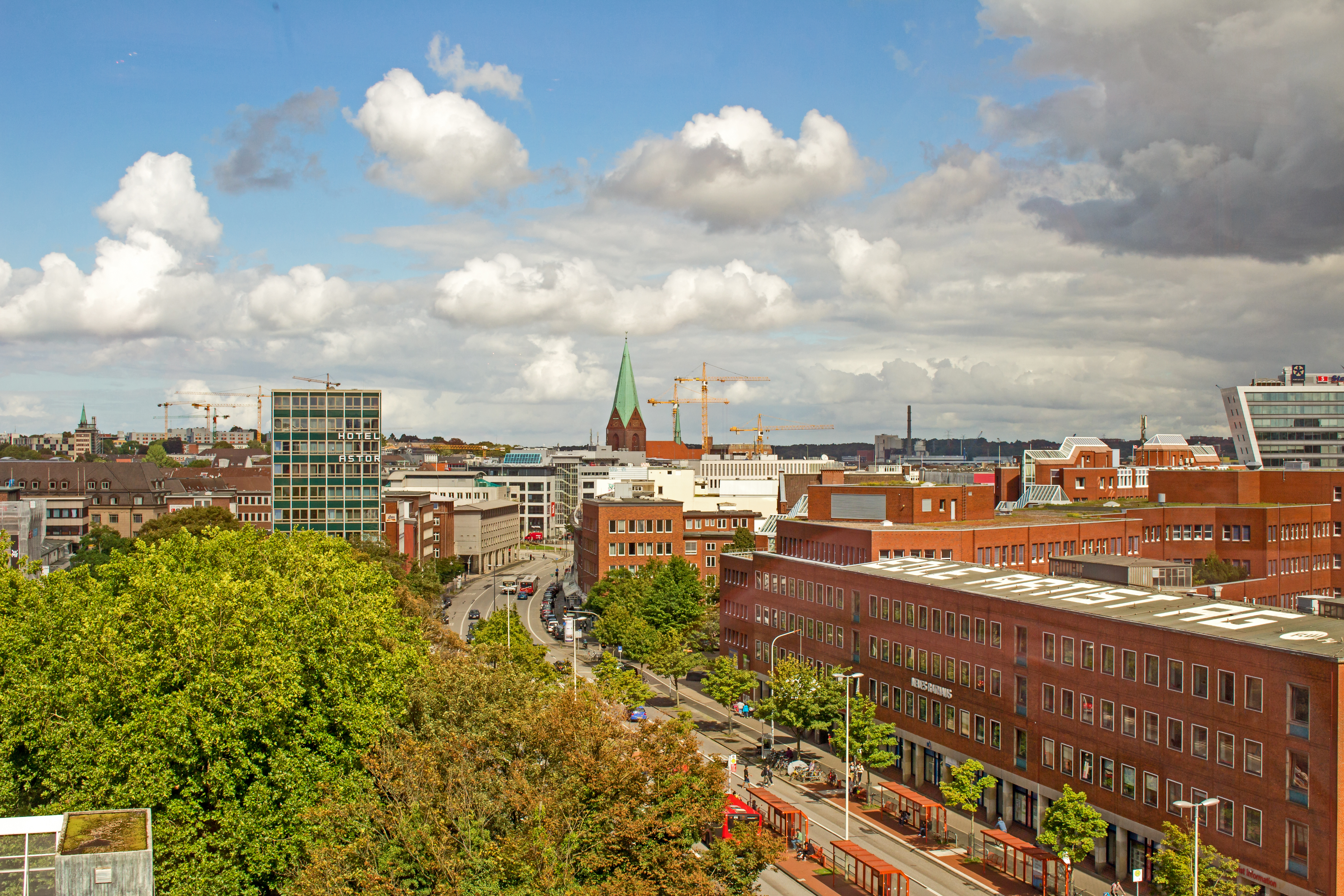 panoramic view of the city - Kiel, Schleswig-Holstein, Germany